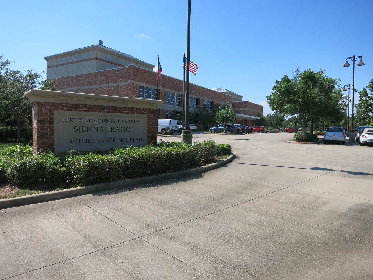 Photo shows the Sienna Branch, Fort Bend County Libraries at 8411 Sienna Springs Blvd., Missouri City, TX 77459. View is toward the north.